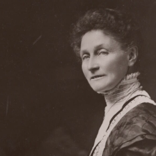 Lilian Hicks by Lena Connell for Women's Freedom League c. 1908